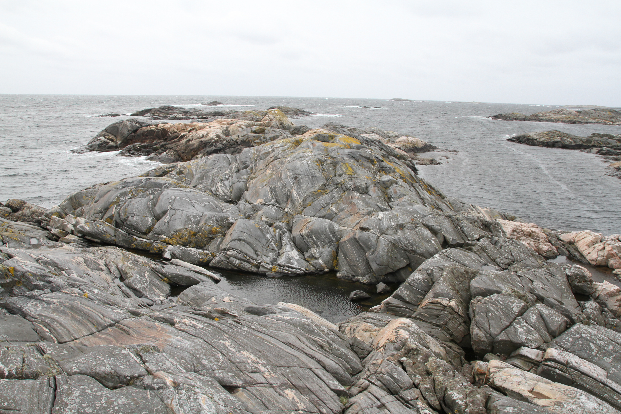 Image from the Belteviga bay at Flekkerøya island, south of Kristiansand (Norway). The geology here is the Sveconorvegian craton, about 1 billion years old, that covers south Norway (Agder) and southern Sweden.